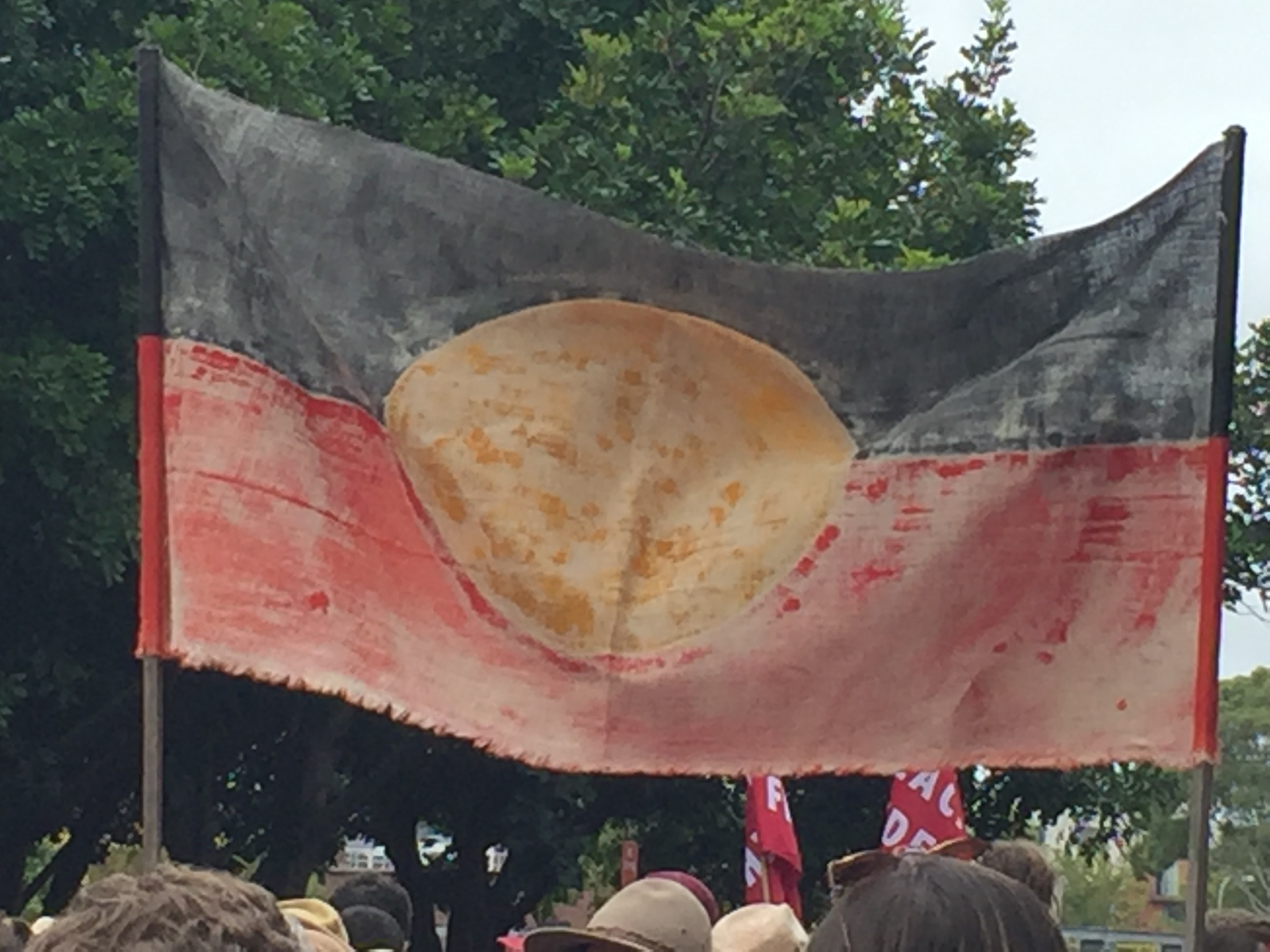 Well used Australian Aboriginal Flag carried in an Invasion Day protest march (Redfern, Sydney), 26 January 2018